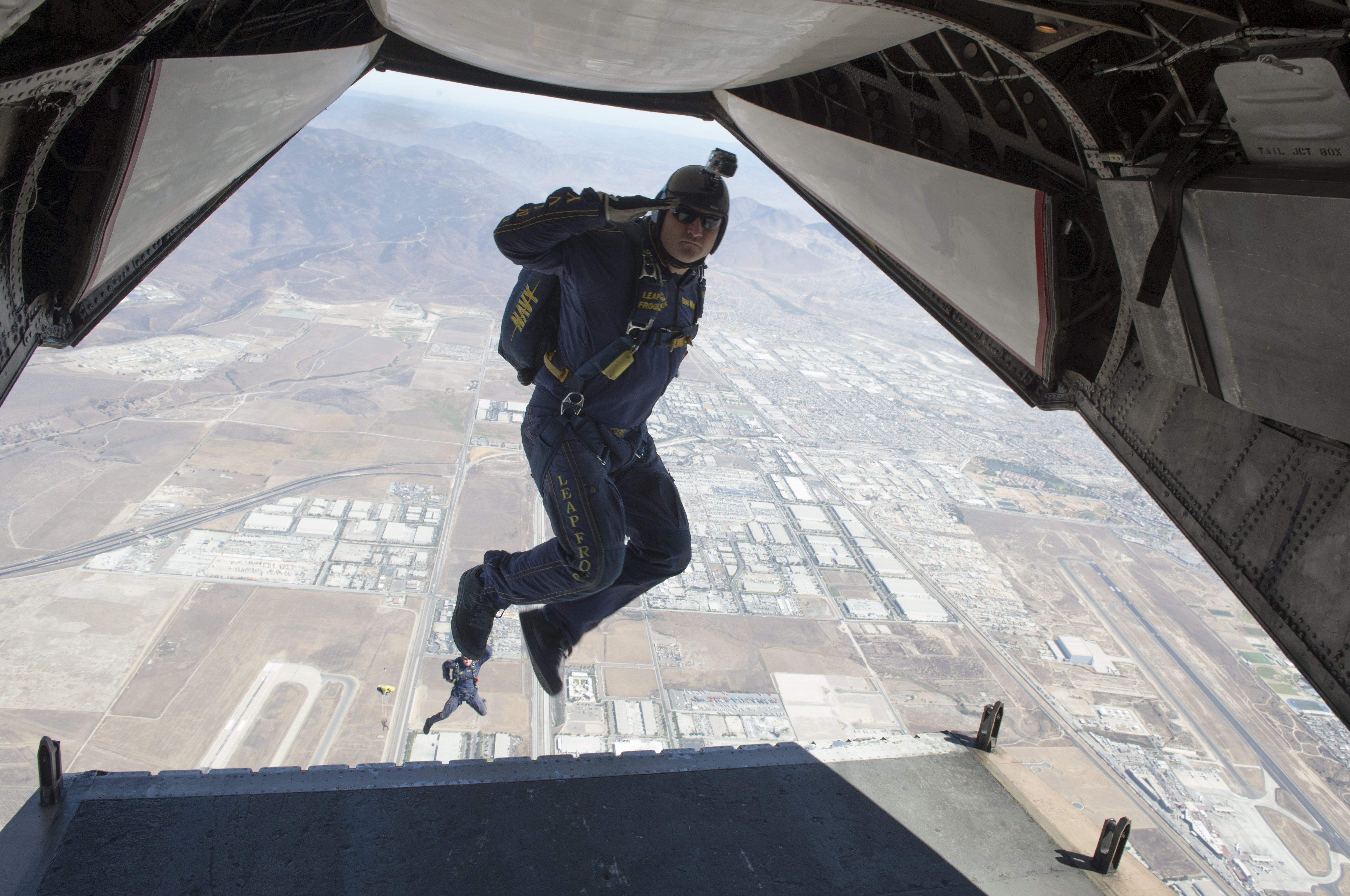 SAN DIEGO (Sept. 25, 2013) Chief Special Warfare Operator (SEAL) Brad Woodard, assigned to the U.S. Navy parachute demonstration team, the Leap Frogs, jumps from a C-2A Greyhound aircraft from the Providers of Fleet Logistics Support Squadron (VRC) 30 during parachute jump training. The Leap Frogs are based in San Diego and perform aerial parachute demonstrations around the nation in support of Naval Special Warfare and Navy Recruiting. (U.S. Navy photo by Mass Communication Specialist 3rd Class Jasmine Sheard/Released) 130925-N-SH505-054 Join the conversation navylive.dodlive.mil